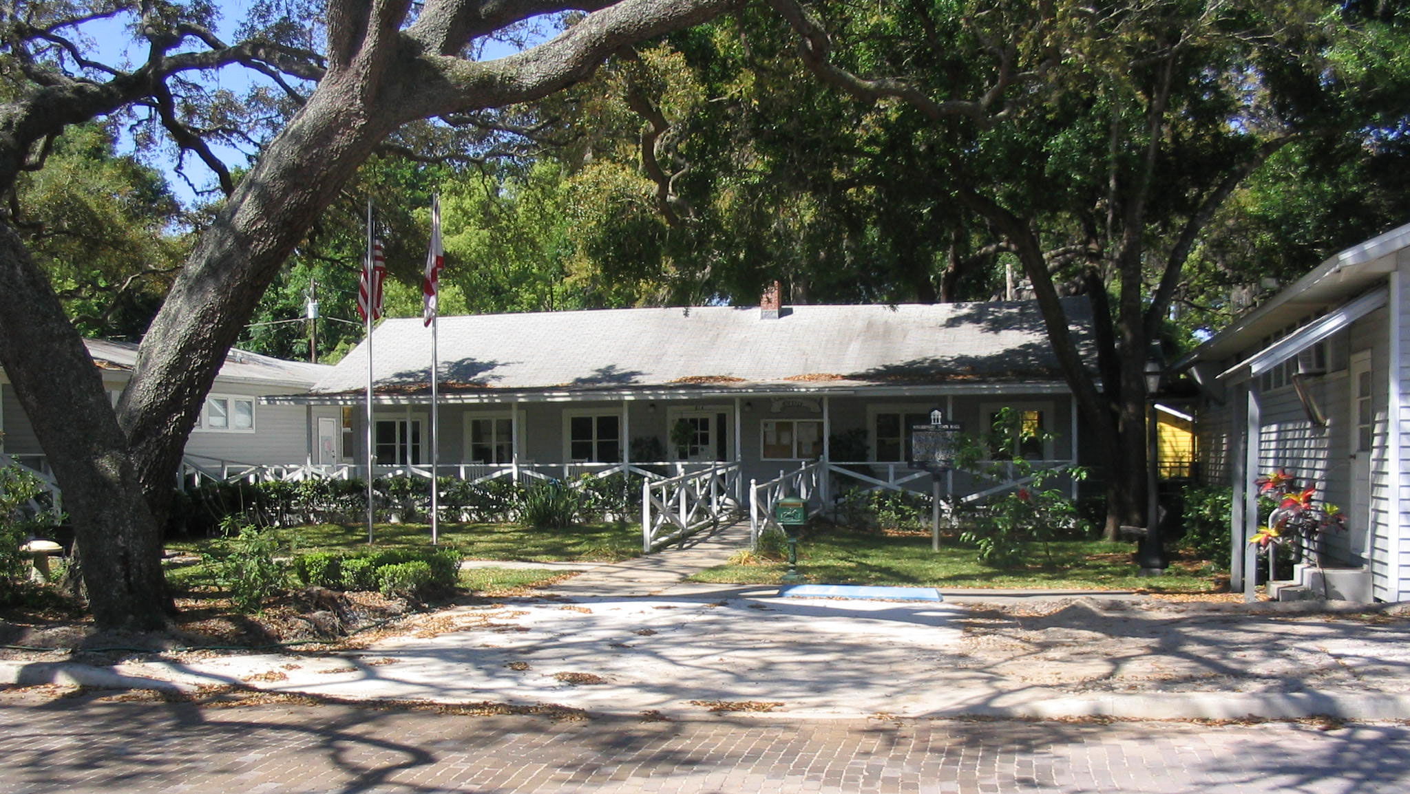 Windermere police station.